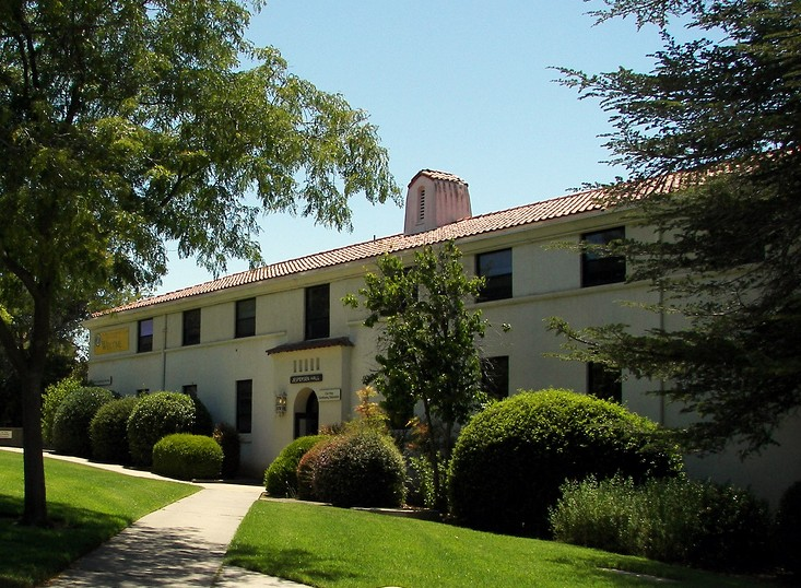 Jespersen Hall of the California Polytechnic State University